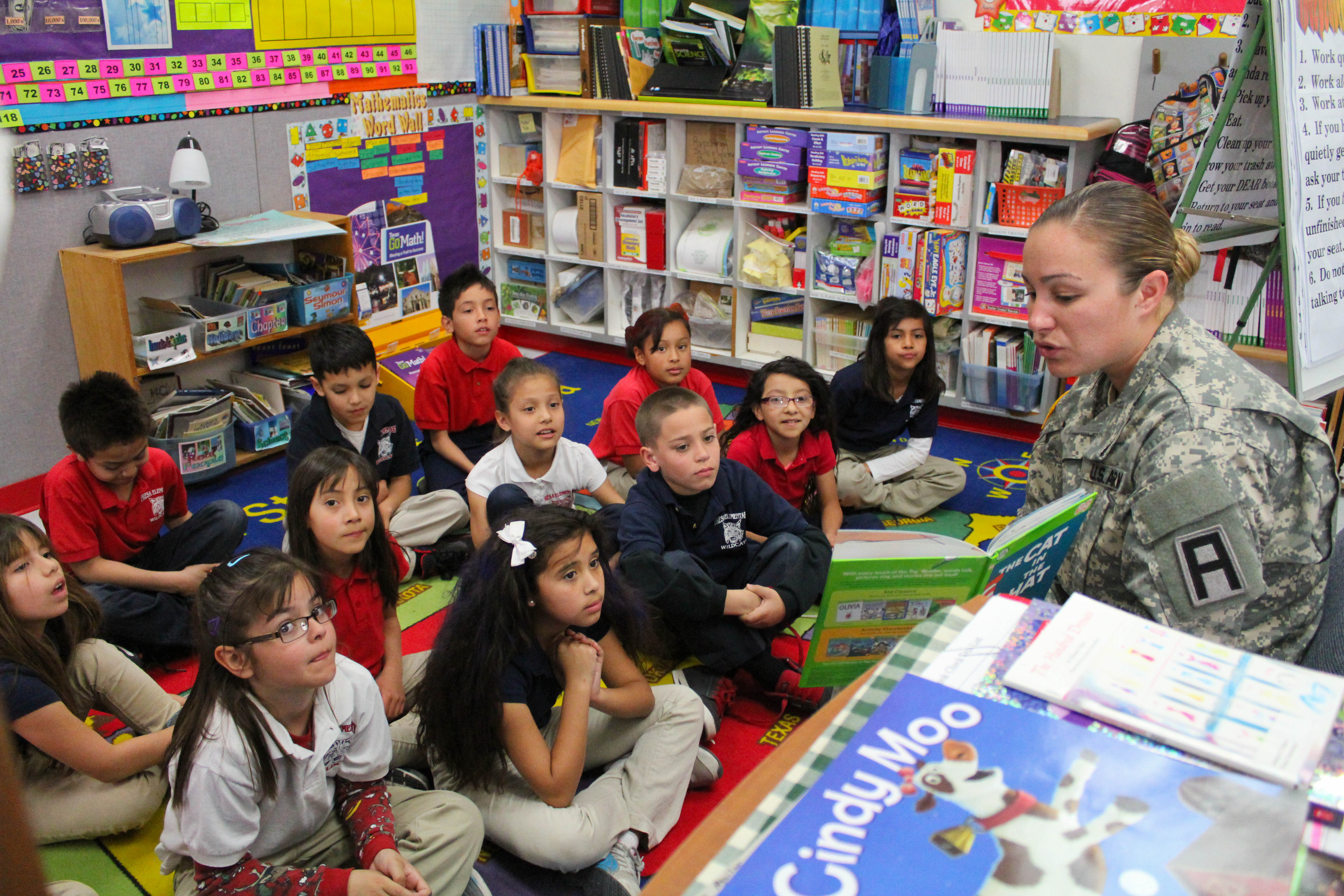 Sgt. 1st Class Elevlyn Barajas, a noncommissioned officer with the 402nd Field Artillery Brigade, reads a book to the students of Presa Elementary School during the Read Across America event on March 6, in El Paso, Texas. Barajas was able to read to multiple classes throughout the day and answer any questions that the students had about her life as a soldier. Soldiers from the 402nd Field Artillery and 5th Armored Brigade teamed together for the event and covered most of the schools classes.